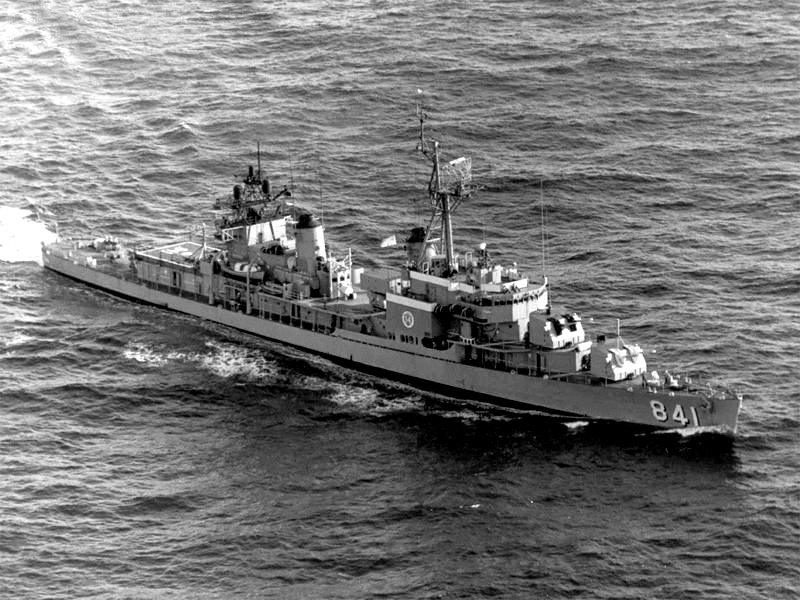 The U.S. Navy destroyer of USS Noa (DD-841) underway in November 1968, while Noa was preparing for a Vietnam deployment. At the time, the mast supporting the antennas of her EW systems (atop the hangar) had been rebuilt to add an ULQ-6 active system, intended to counter the threat of the anti-ship missiles believed to be in the North Vietnamese inventory.